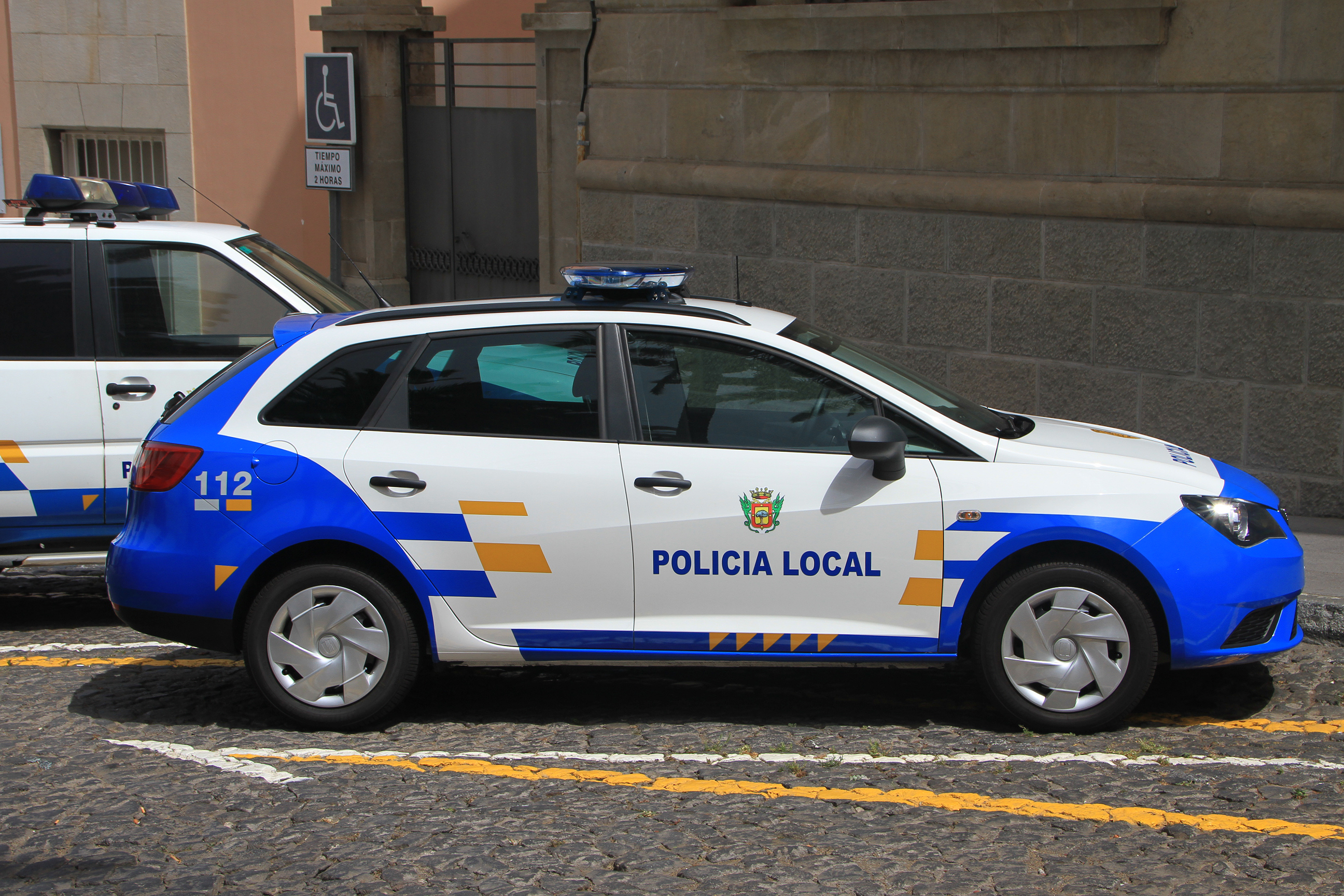 Policía Local car in La Orotava, Tenerife, Canary Islands (Spain)